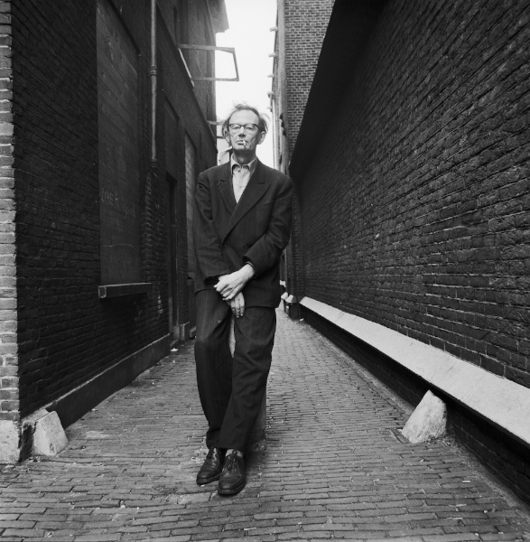 Portrait of Jan Schoonhoven, by Lothar Wolleh